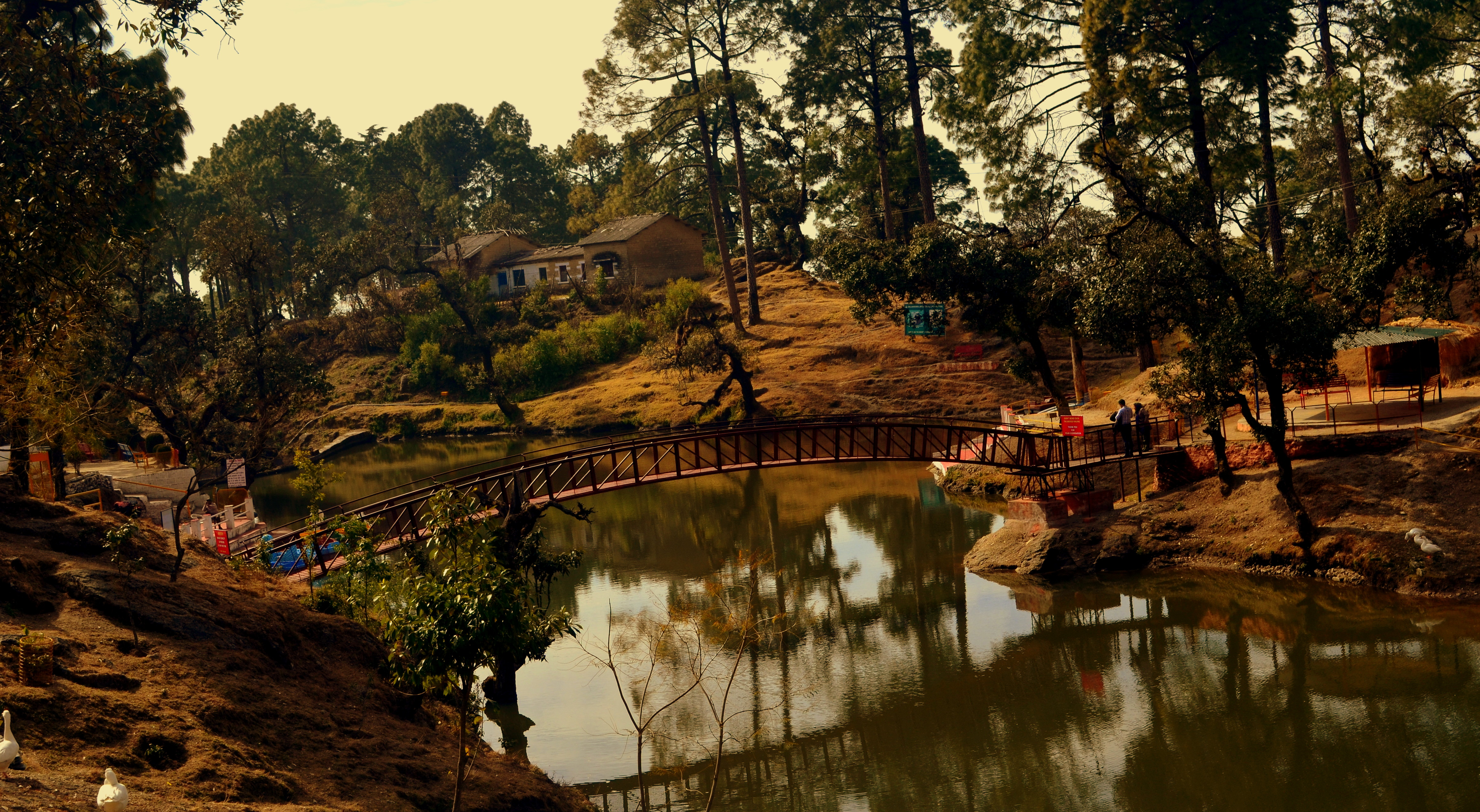 Bhulla Tal (Lake) is a lovely lake located in Lansdowne town of Uttarakhand, India. It lake is an artificial lake dedicated to the Garhwali youth of Garhwal Rifles. Tourists in this lake enjoy the boat ride and can explore the rich and calm loveliness of the place.